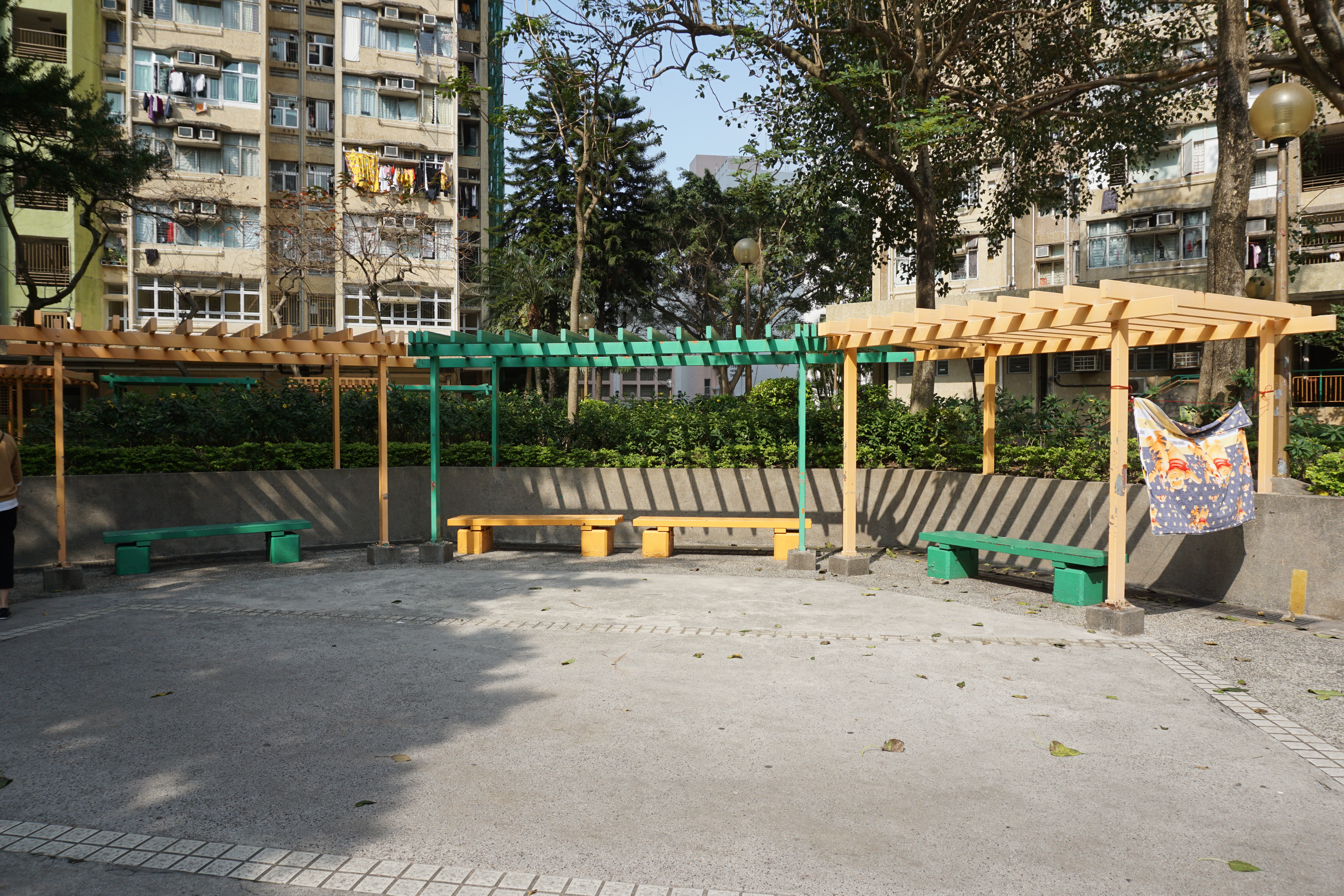 Tai Wo Estate in Tai Po, Hong Kong.